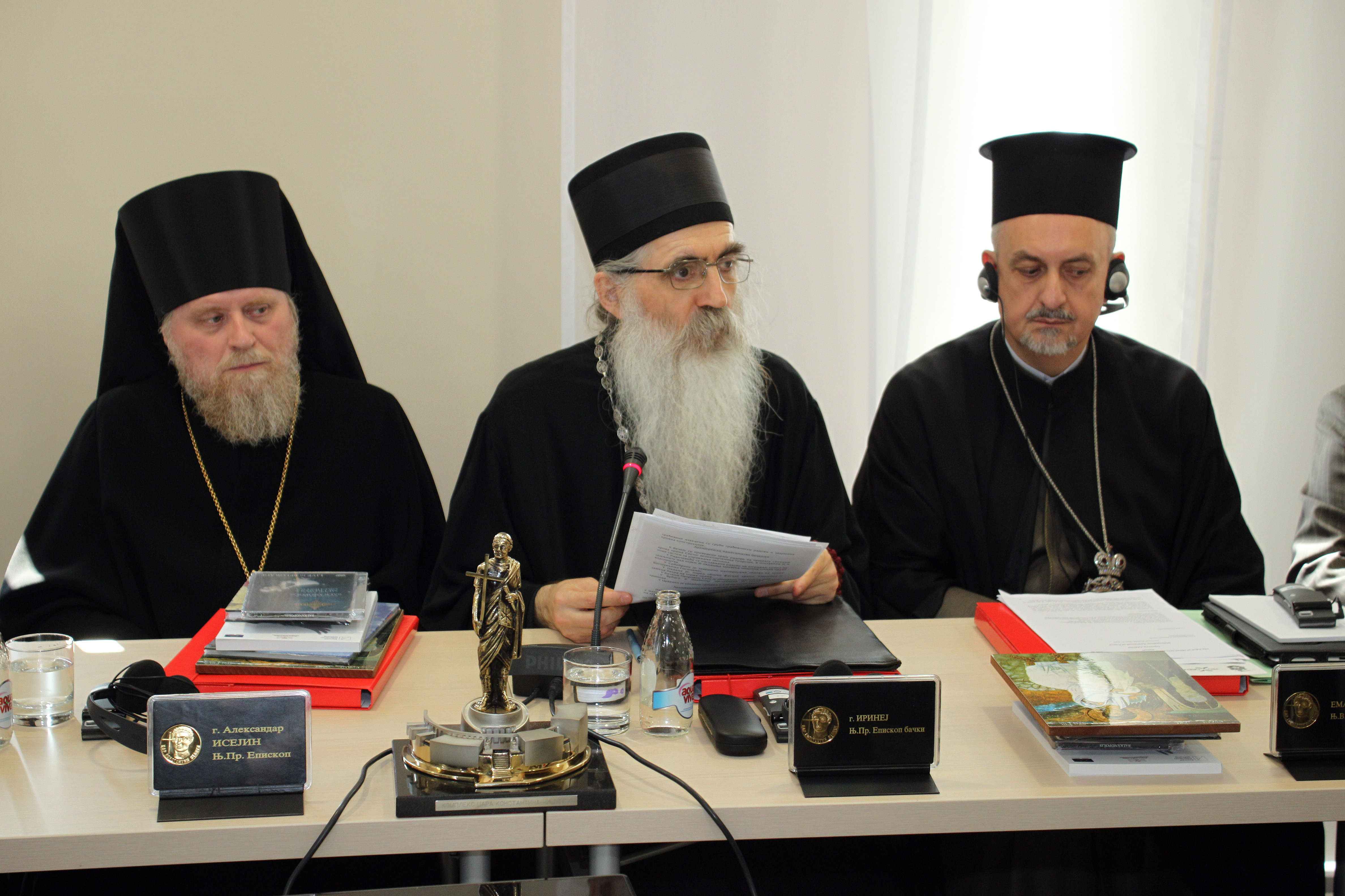 Alexandar Isejin (left), Irinej Bulović (center) and Emmanuil (Adamakis) on a conference in Novi Sad.